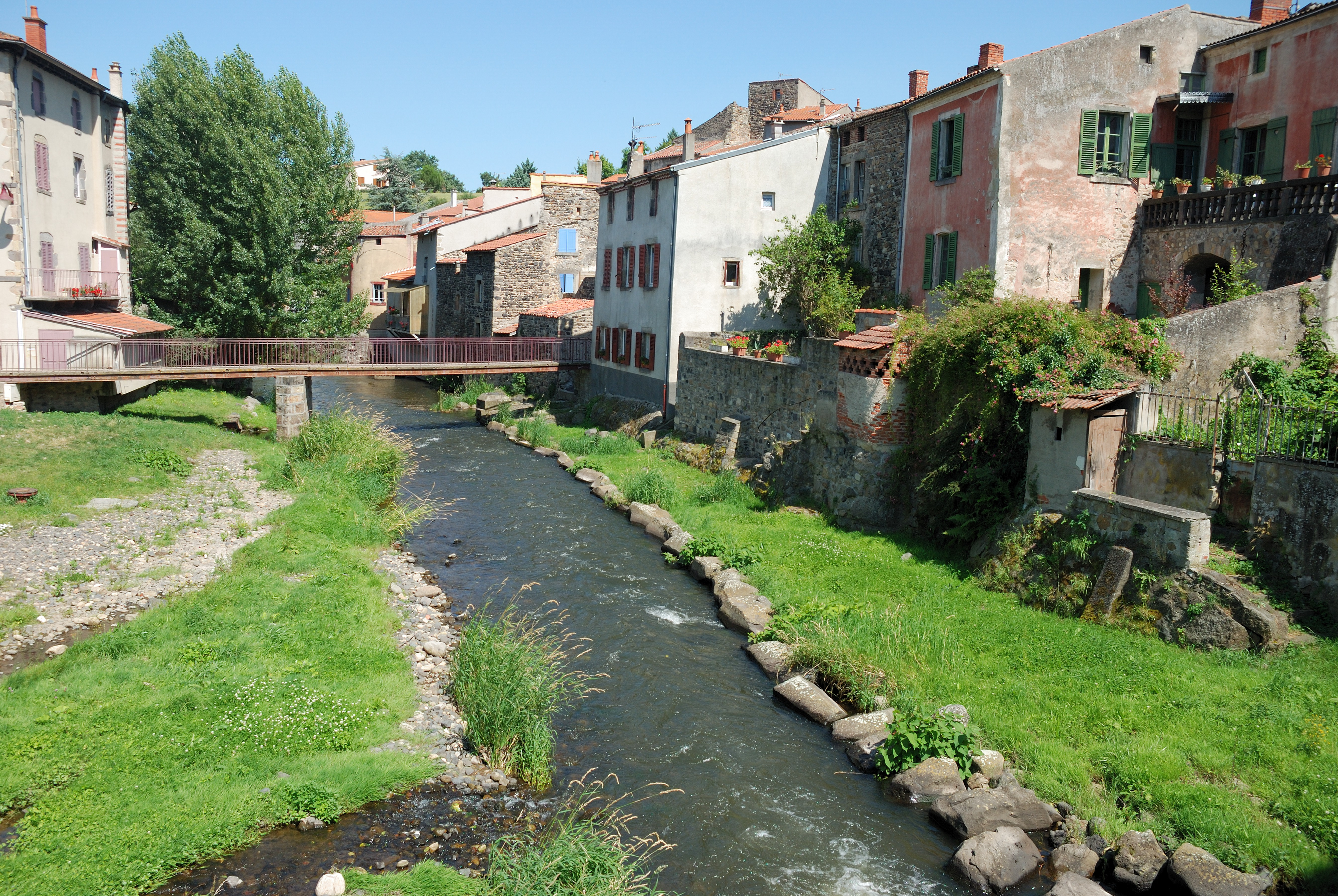 The Couze Chambon river in Champeix, (Puy-de-Dôme, France. Translations in other languages are welcome.